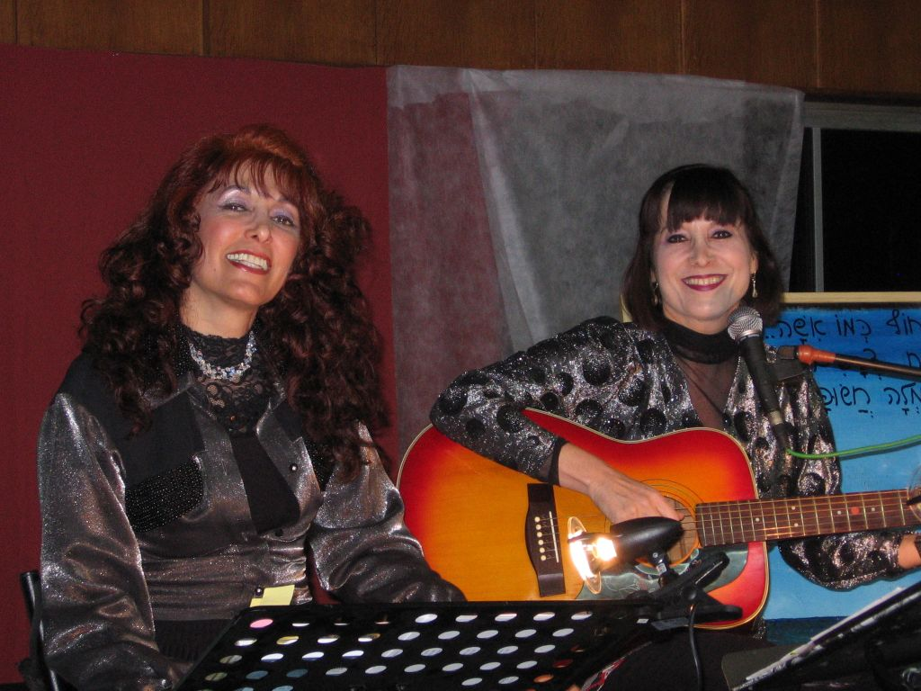 Singer Irit Dotan-Maayan (right) and poet Raheli Avraham-Eitan in a joint performance at Kibbutz Shomrat, Western Galilee